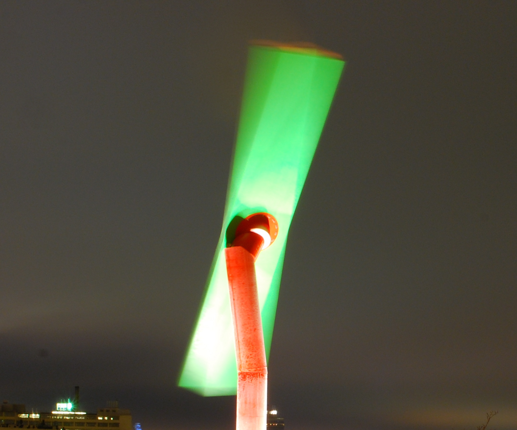 "Instabil", artwork by Swedish artist Lars Englund. Hammarby sjöstad, Stockholm.